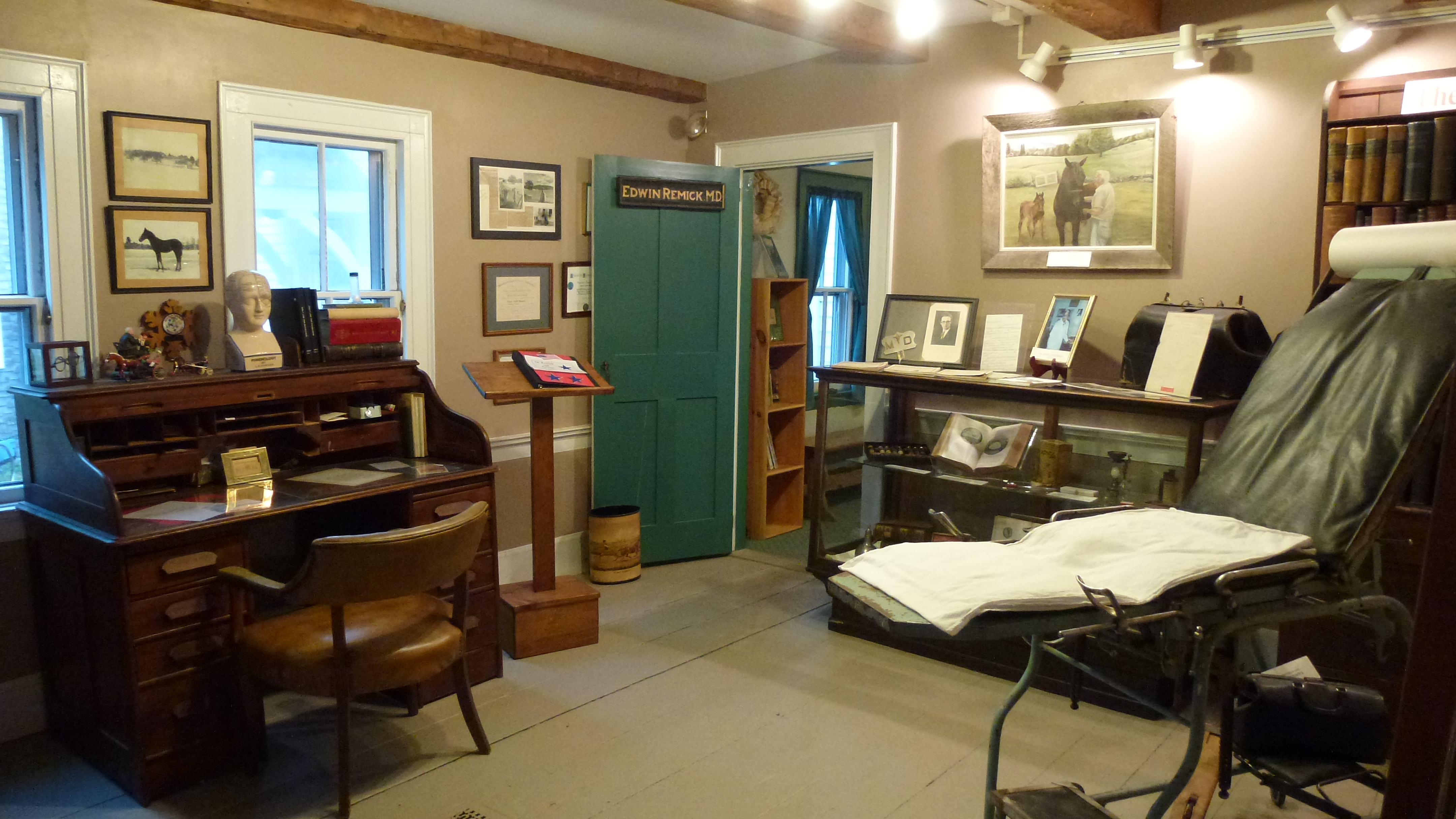 A historic house and working farm complex at 4 Great Hill Road in Tamworth, New Hampshire. Includes the Capt. Enoch Remick House and a farmhouse that were the home and offices of the father and son country doctors. The site also includes a cattle barn, historic English barn, stable, milk house, sugar house, woodshed, and small ice house.